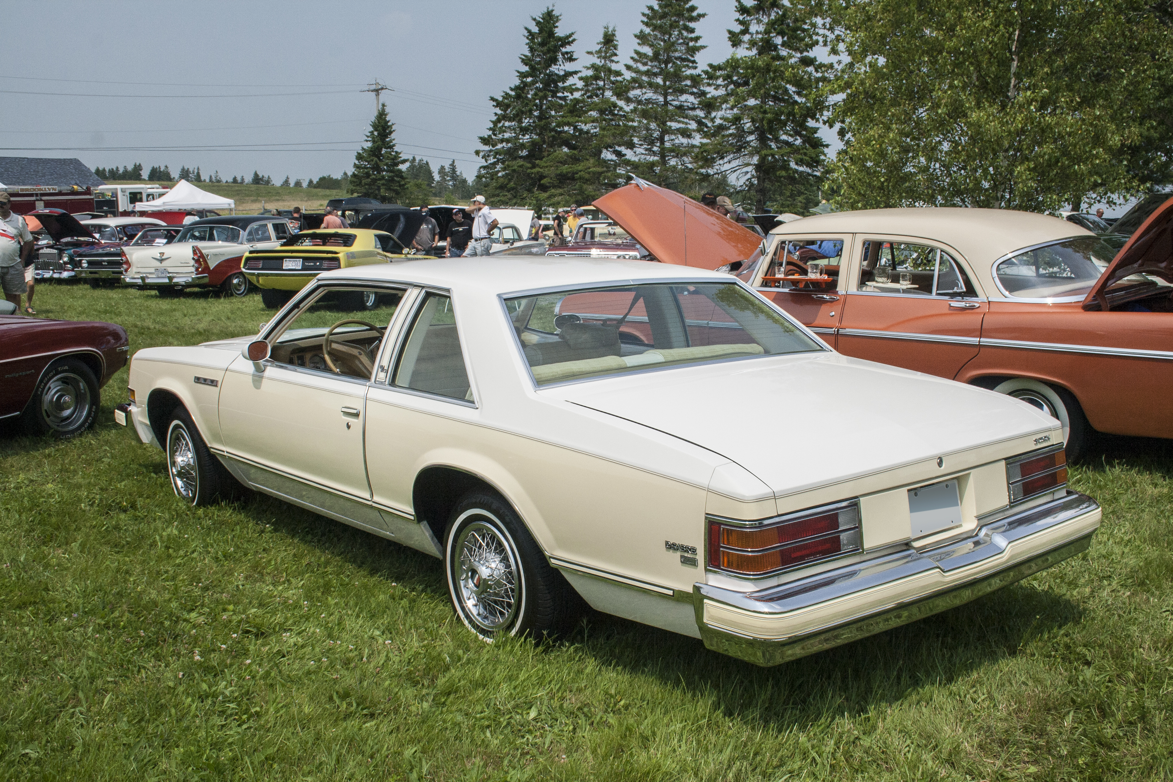 1979 Buick LeSabre Coupe